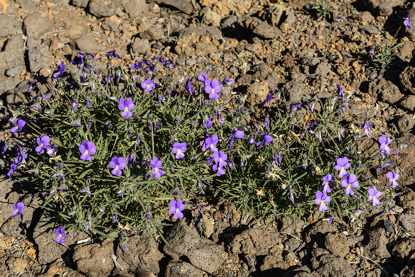 VVariedad de violeta de Garafía, en los altos de la cumbre, camino del Roque de los Muchachos